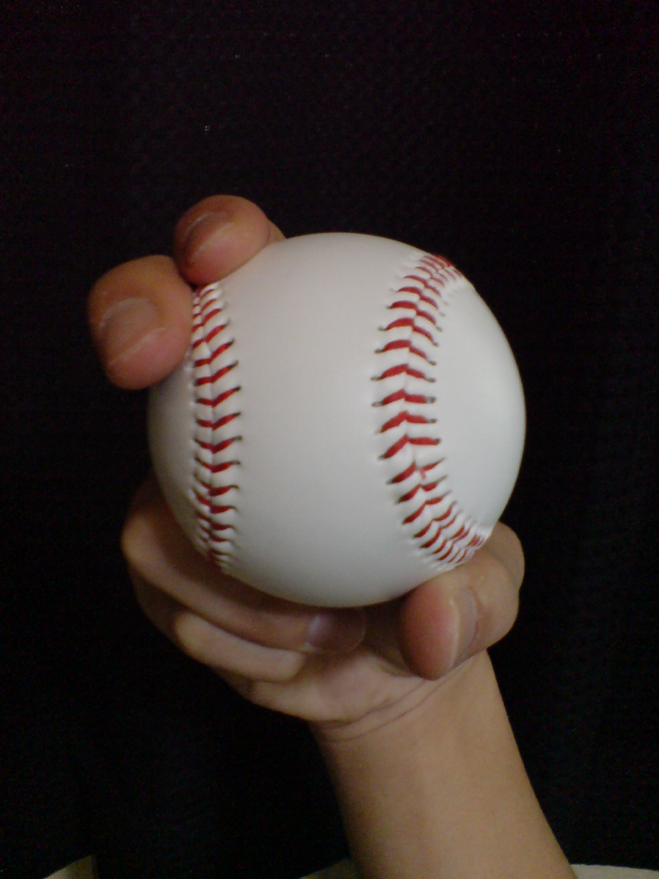 Curve